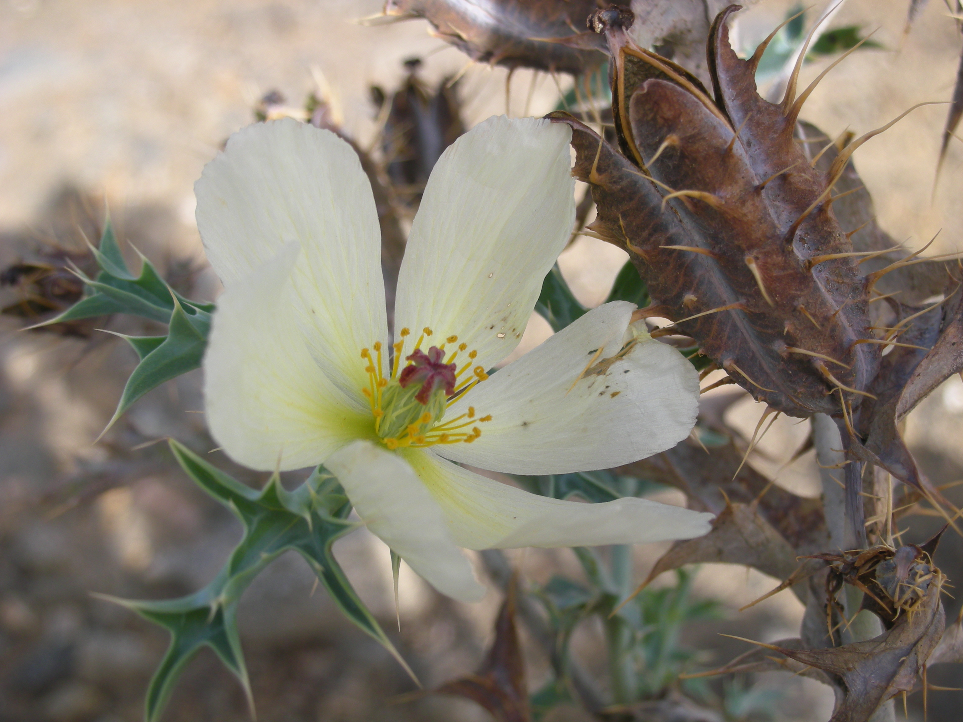 View for Alshafa "village in Taif